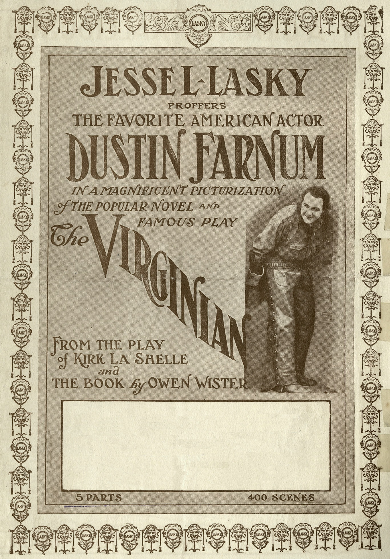 The Virginian is a 1914 film based upon the novel The Virginian by Owen Wister, and starring Dustin Farnum as the Virginian. This is a monochrome movie poster for the film.